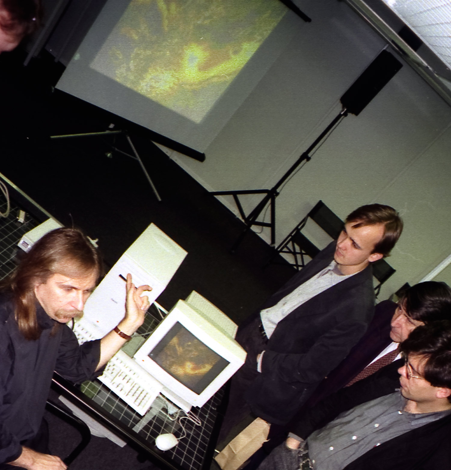 Kai Krause of Metacreations, graphical interface designer and developer of new graphic tools and his then well-known "KPT"-plug-ins for Adobe Photoshop gives a demo of his new tool 'Bryce' at a German computer conference. Here he's seen on the left at a small stand with a few selected visitors. His machine is an Apple Macintosh computer.